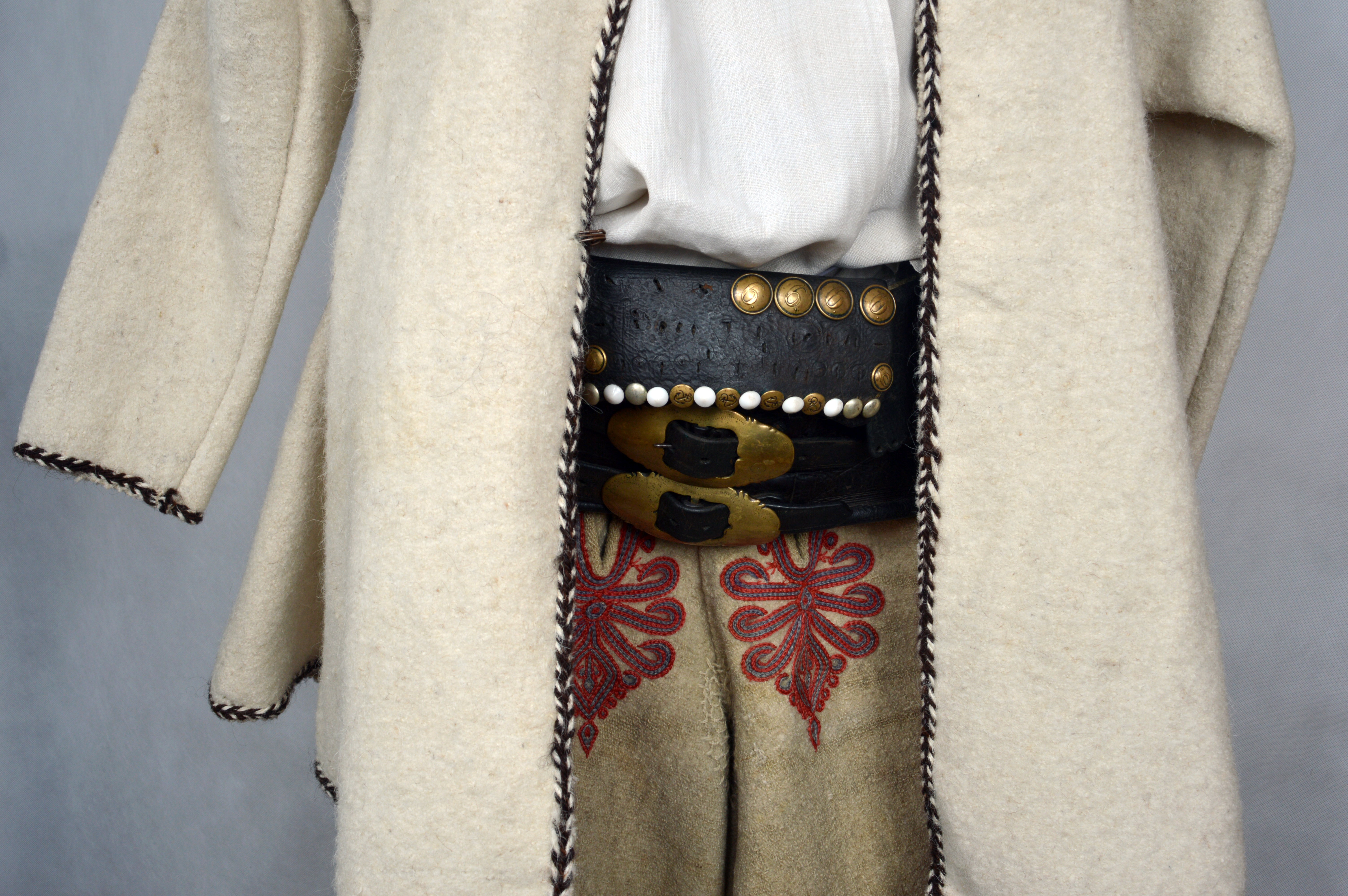 Mountaineer belt worn in Podhale, Poland. A property of Muzeum Tatrzańskie in Zakopane, Poland.